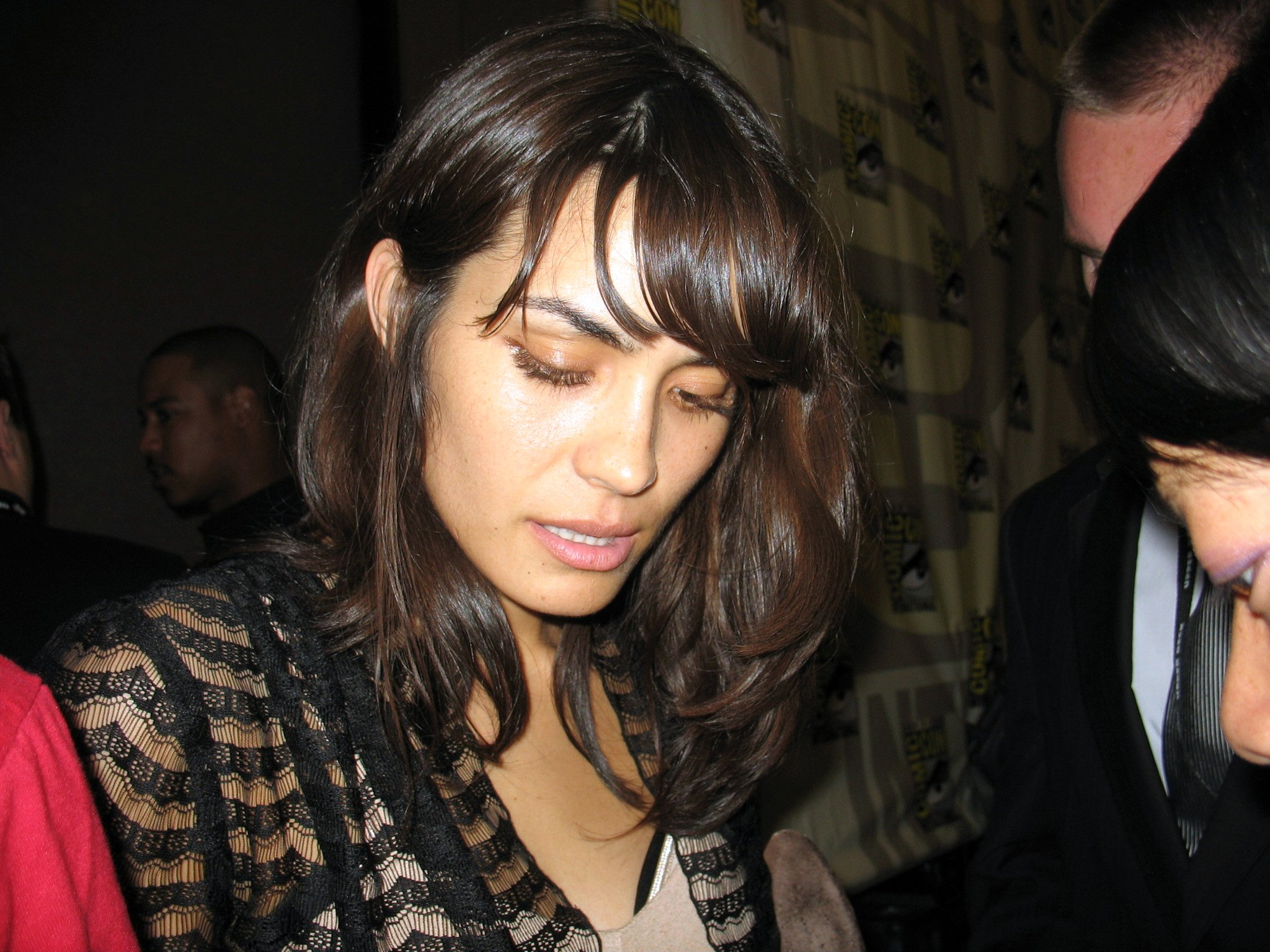 Shannyn Sossamon at Comic-Con 2007 promoting Moonlight TV series